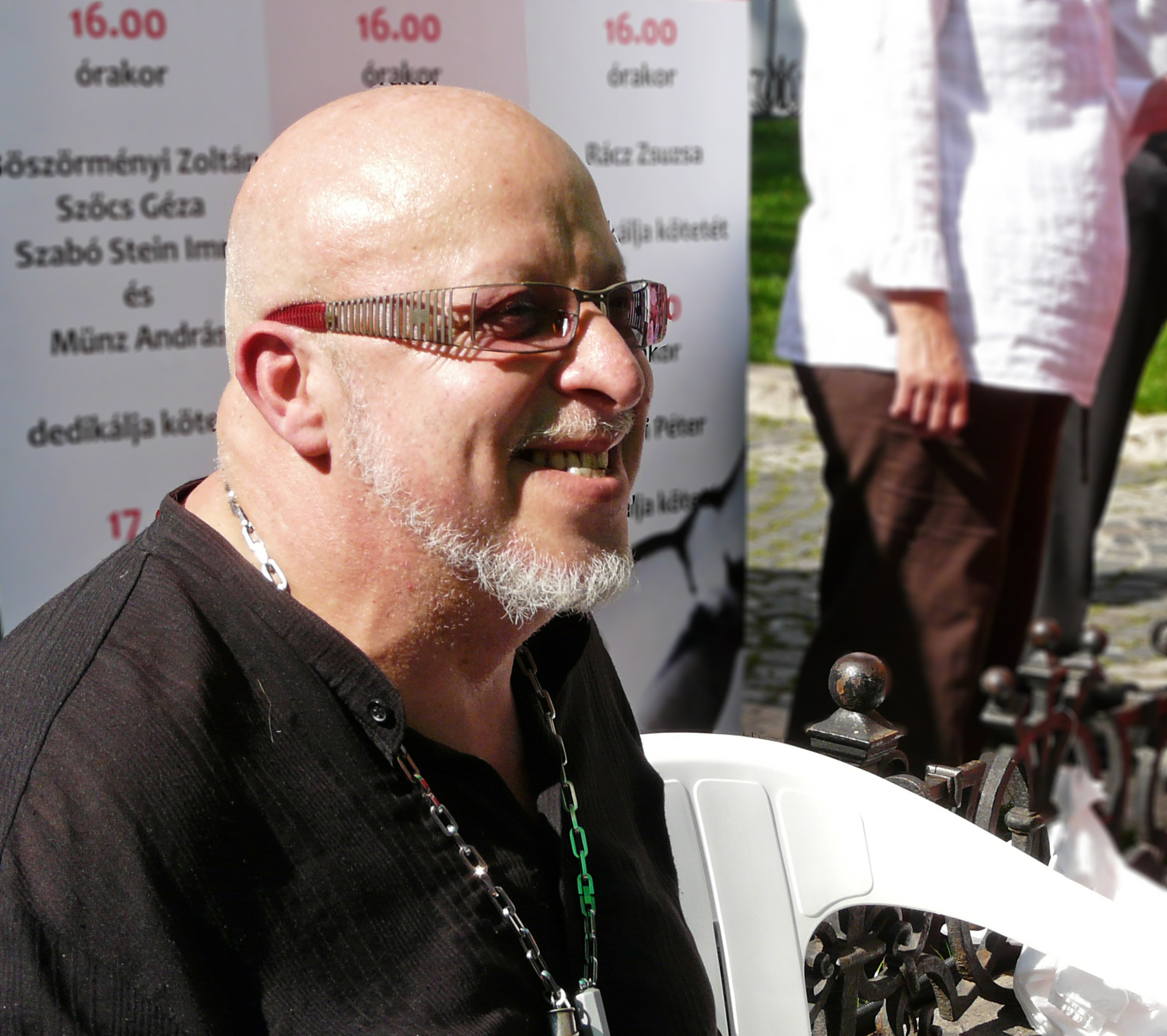 András Réz Hungarian writer. Juin 2010.